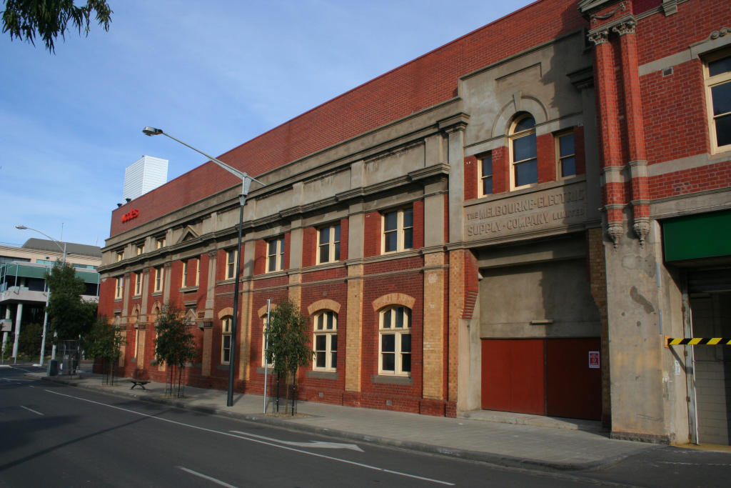 Melbourne Electric Supply Company Building, Geelong. Now part of Bay City Plaza.